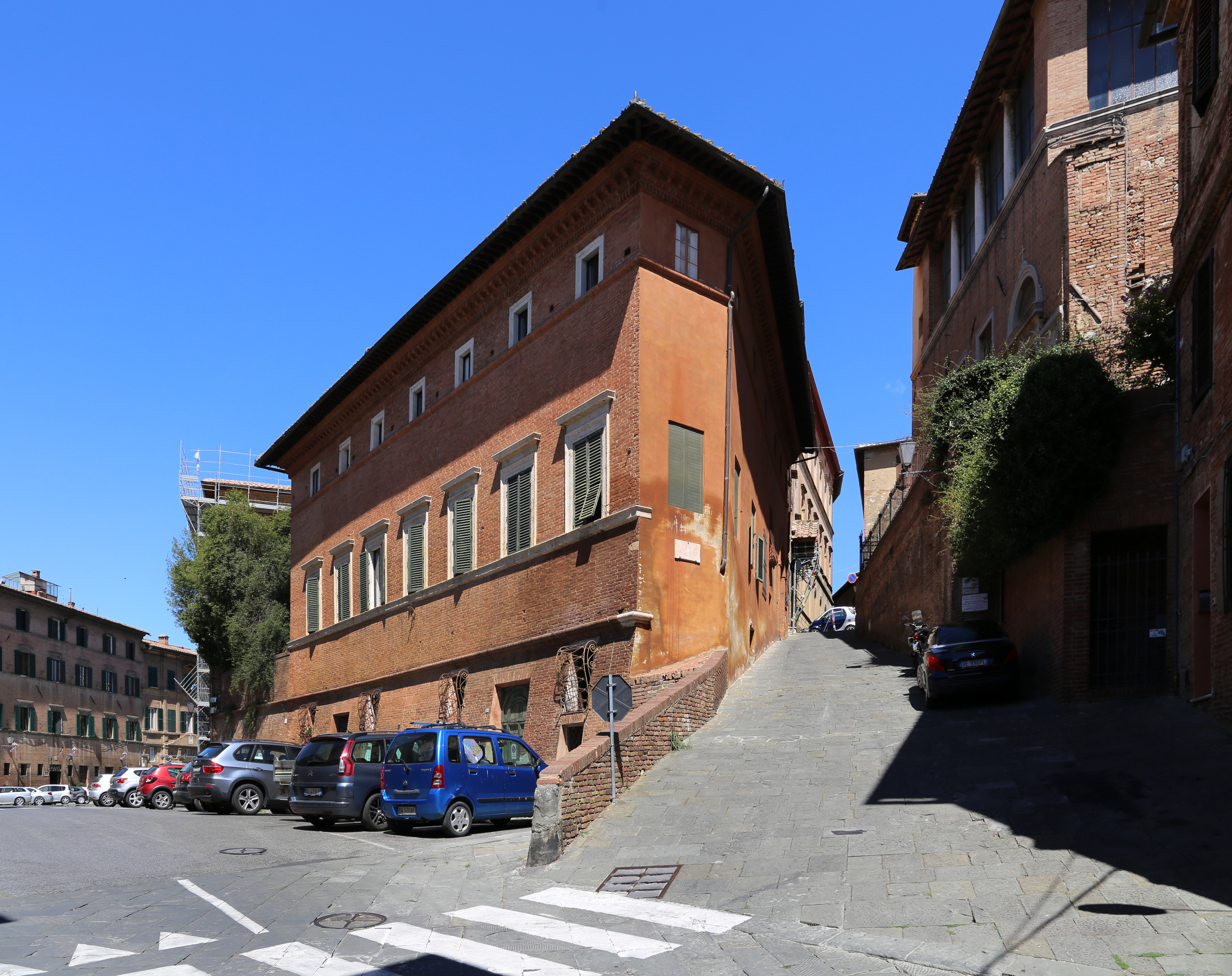 Siena, miscellany